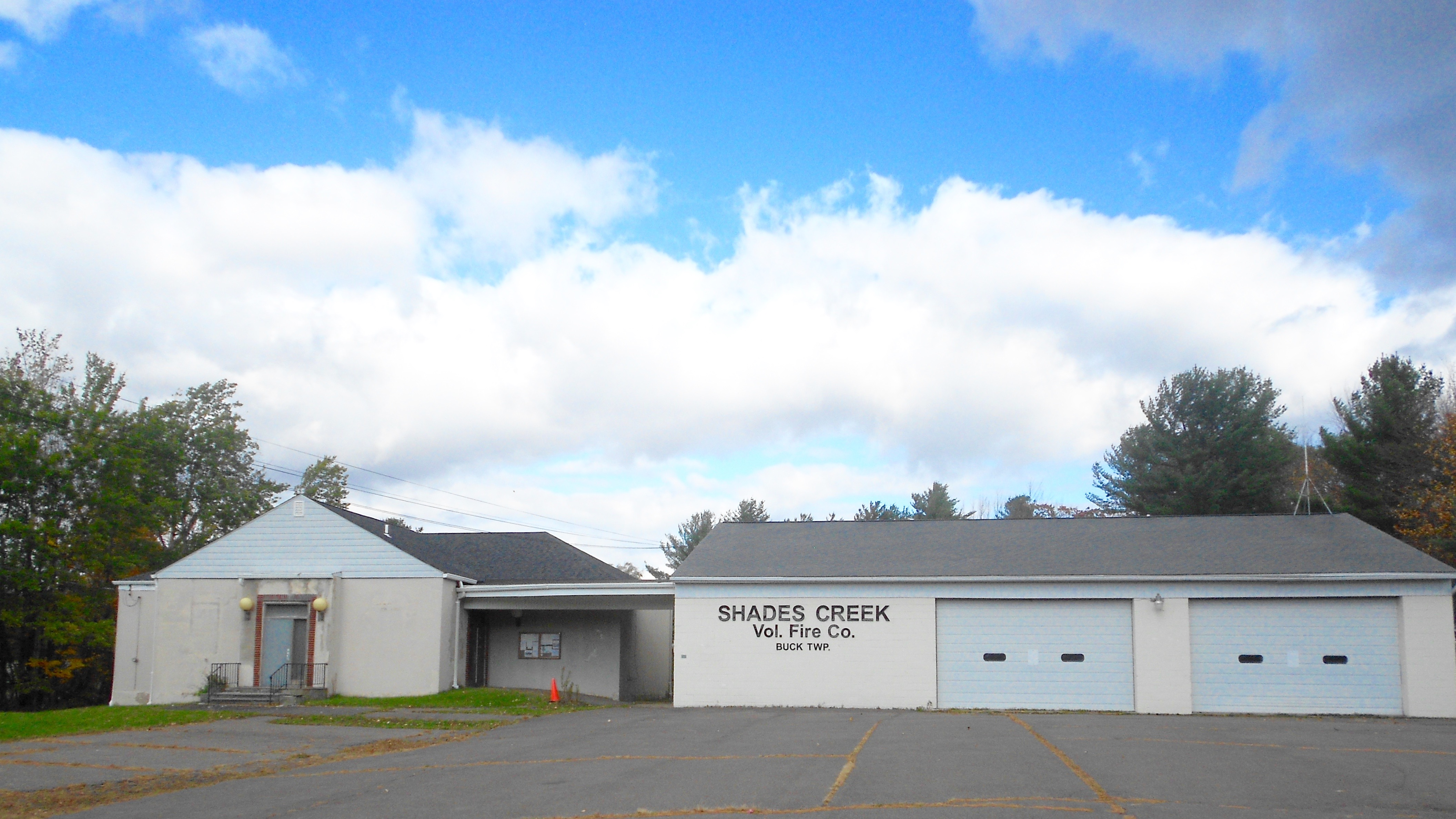 Buck Township Municipal Building (left) and Fire Department (right) in Buck Township, Pennsylvania